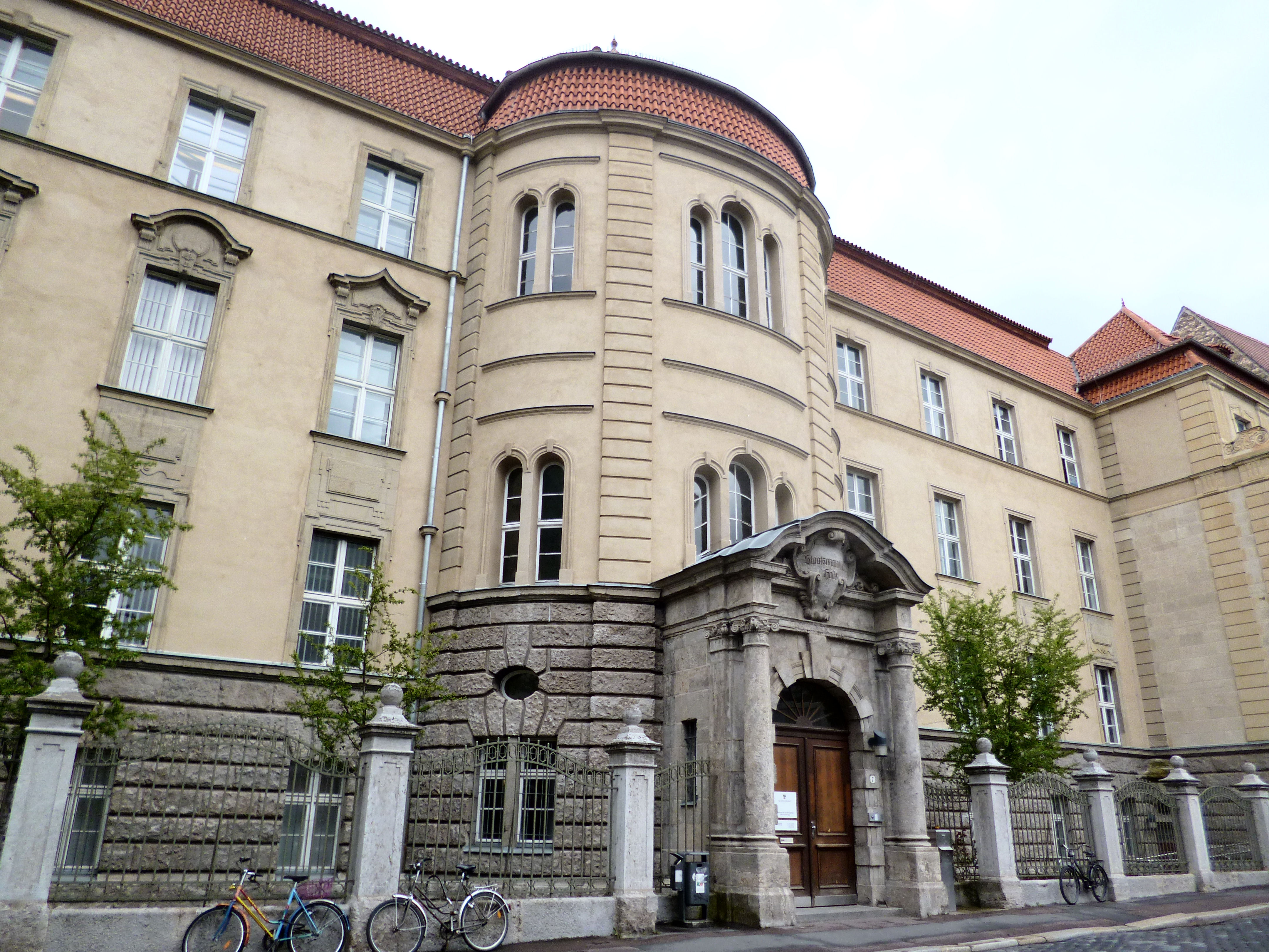 Kleine Steinstrasse No. 7, court house, Halle (Saale)